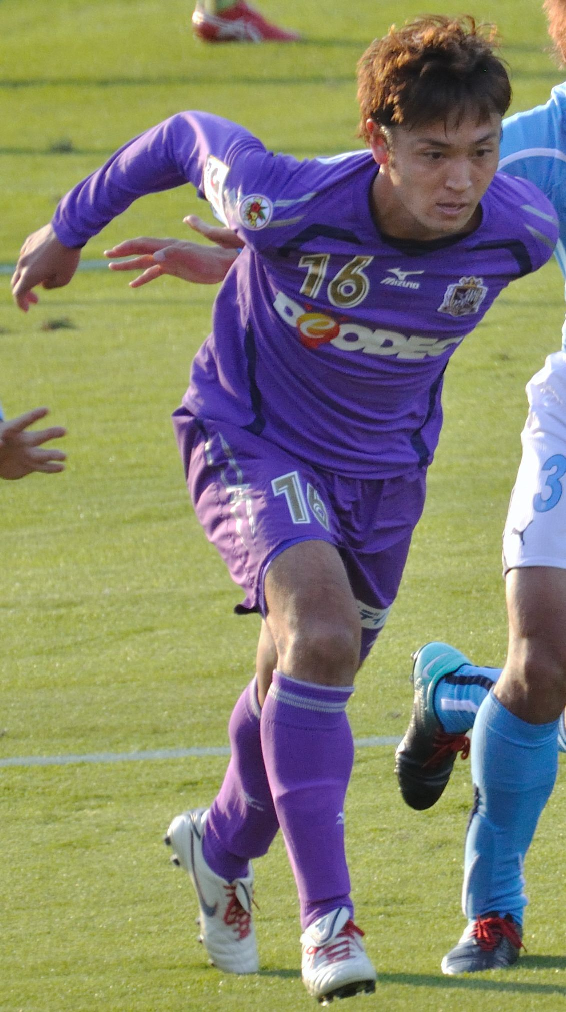 Satoru Yamagishi cropped from DSC_7717